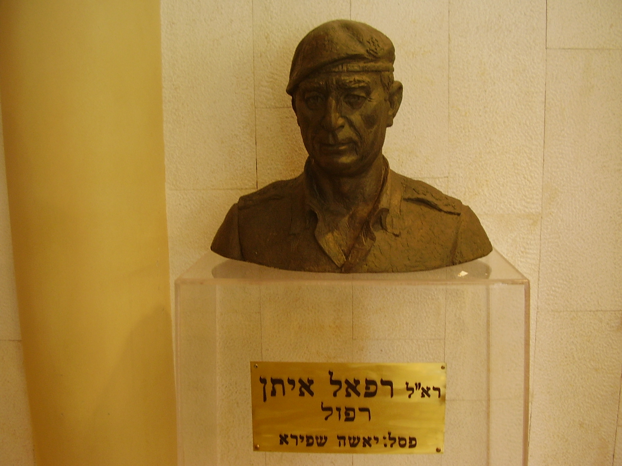 statue of the late general rafael eitan, the former chief of staff of i.d.f פסל של רא"ל במילואים רפאל איתן, בתיכון מקיף ע"ש רפאל איתן, ברמת גן